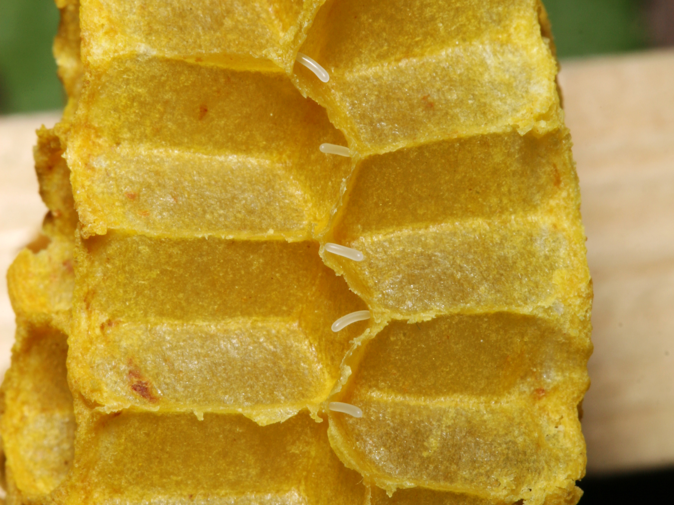 Honeycomb of honey bees with eggs. The lateral walls of the cells are partly removed. The eggs are standing upright at the deepest point of the cells.